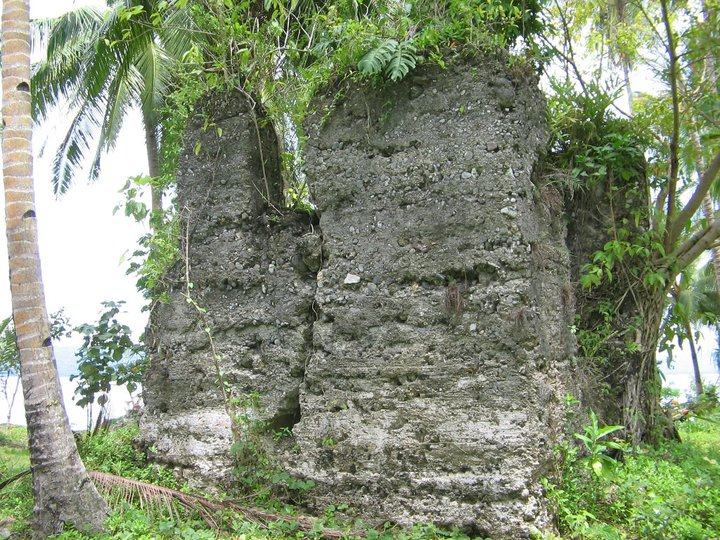 Libagon Balwarte